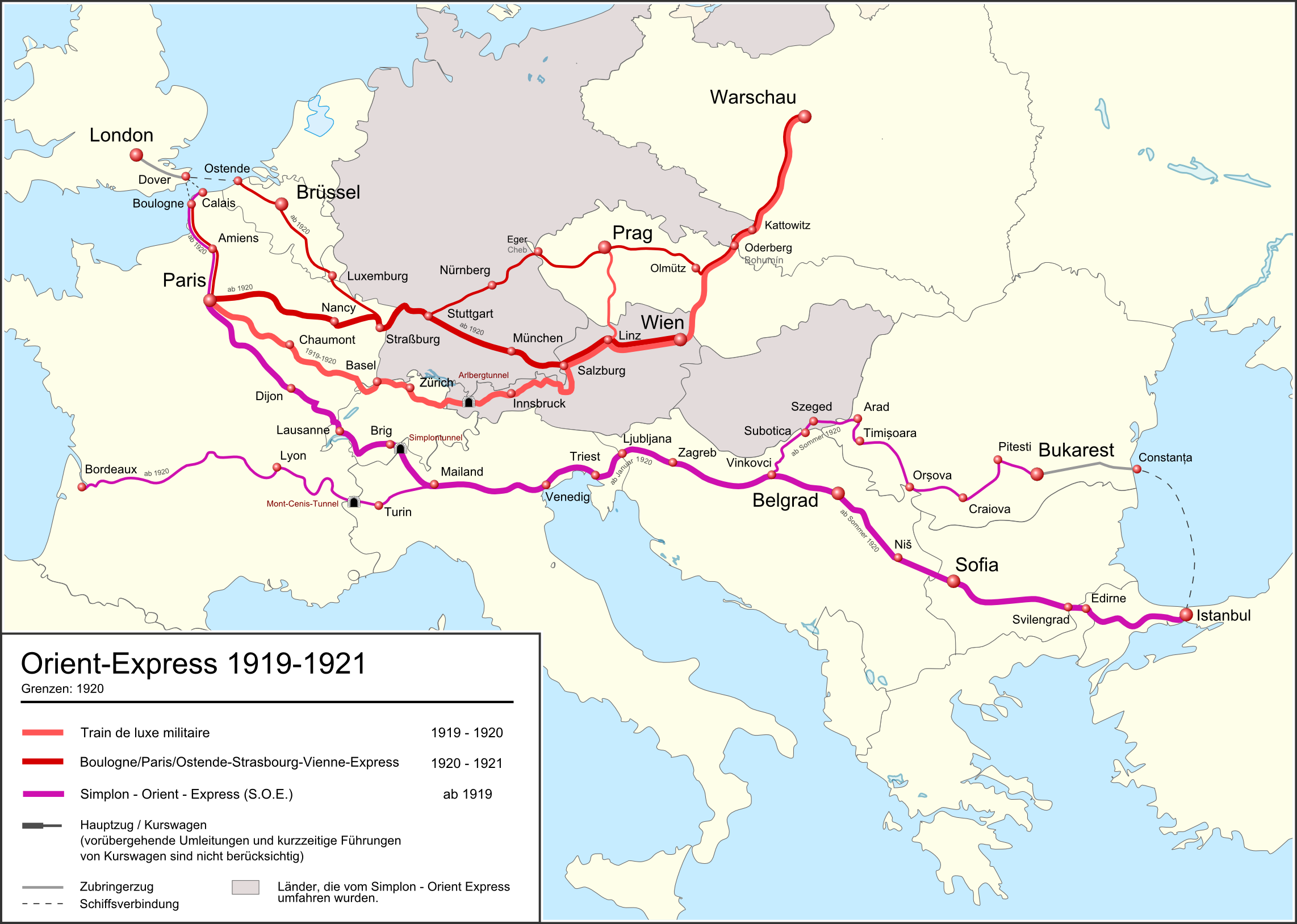 Route of the Orient Express Trains from 1919 to 1921. National borders as per 1920